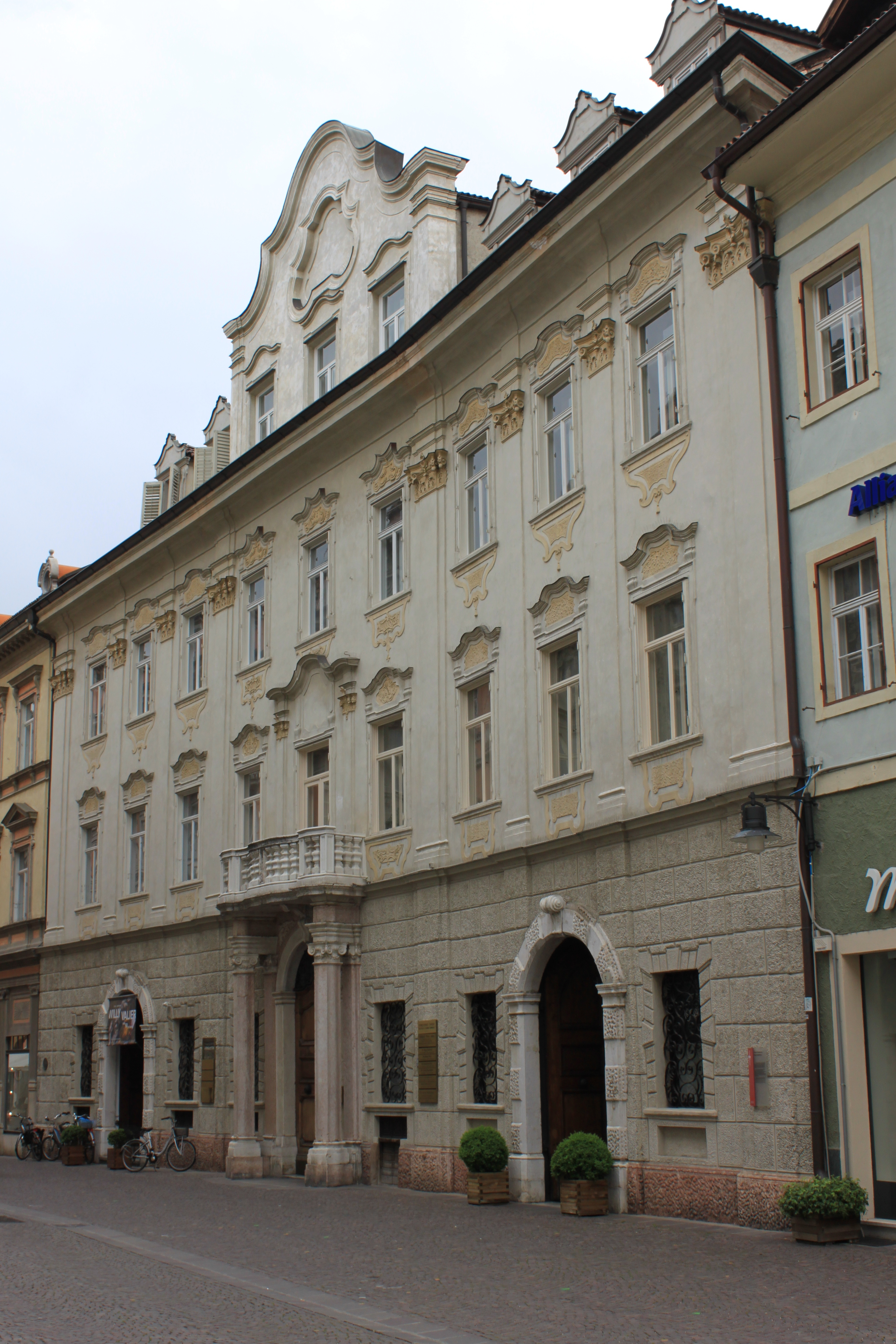 Palais Campofranco Mustergasse Bozen Bolzano South Tyrol